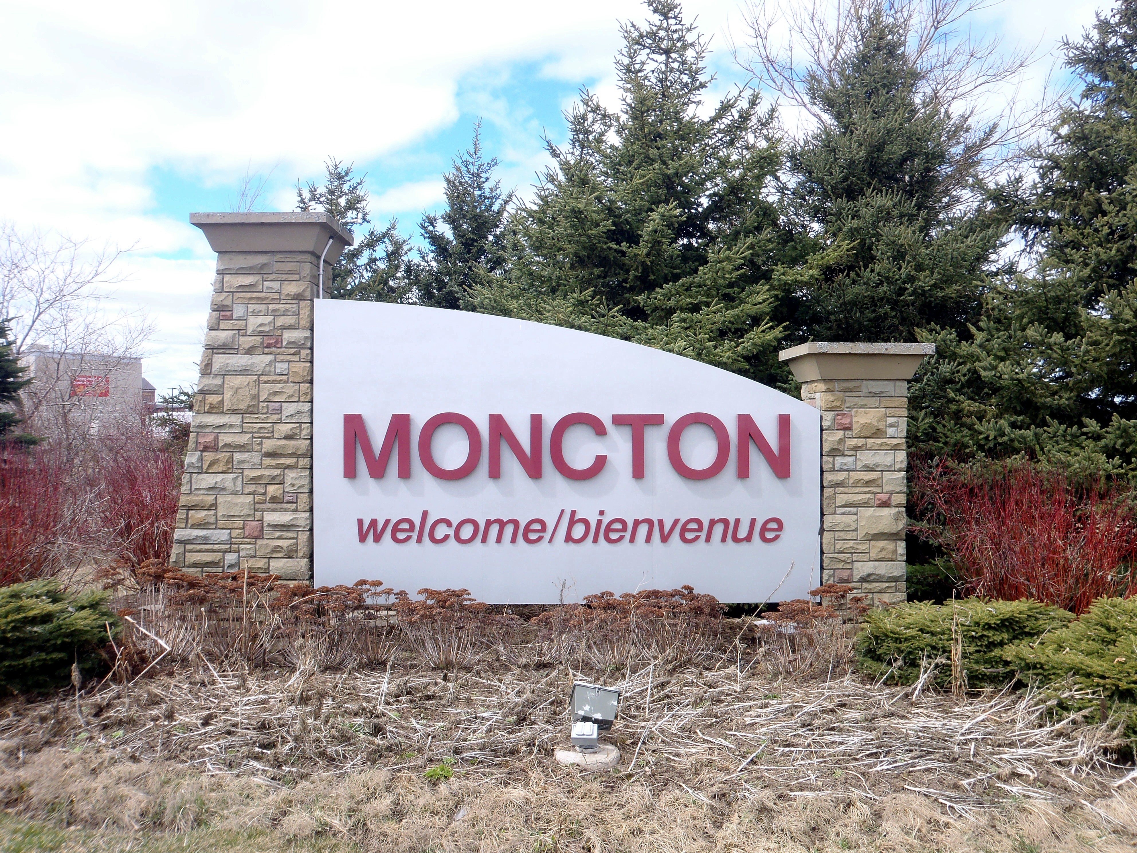 Moncton, New Brunswick, Canada.